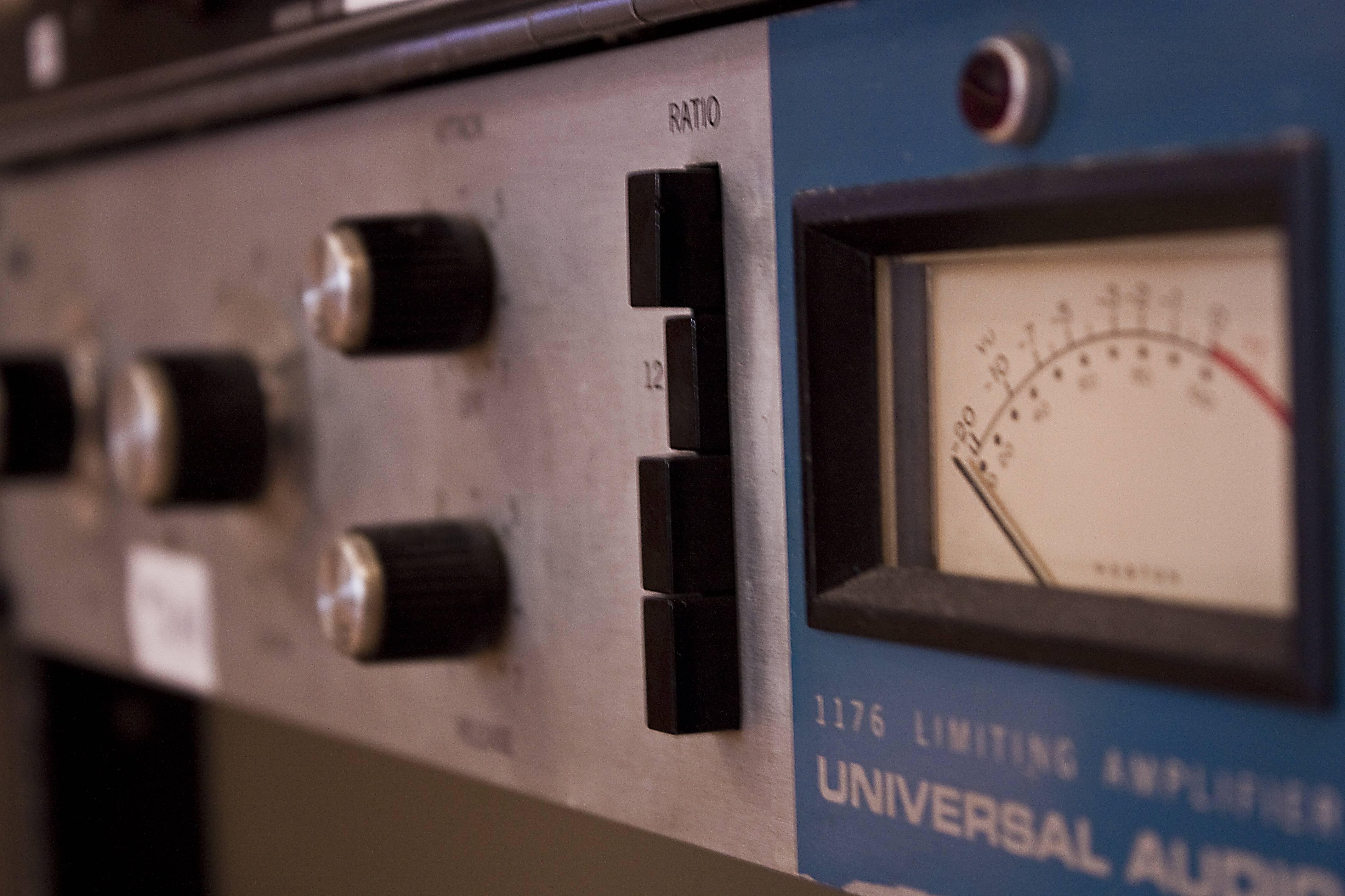 1176 References Studio 1093, Athens, Georgia.